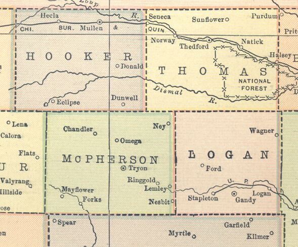 Portion of an "Atlas of the World" devoted to Hooker, Logan, McPherson, and Thomas Counties in the U.S. state of Nebraska.